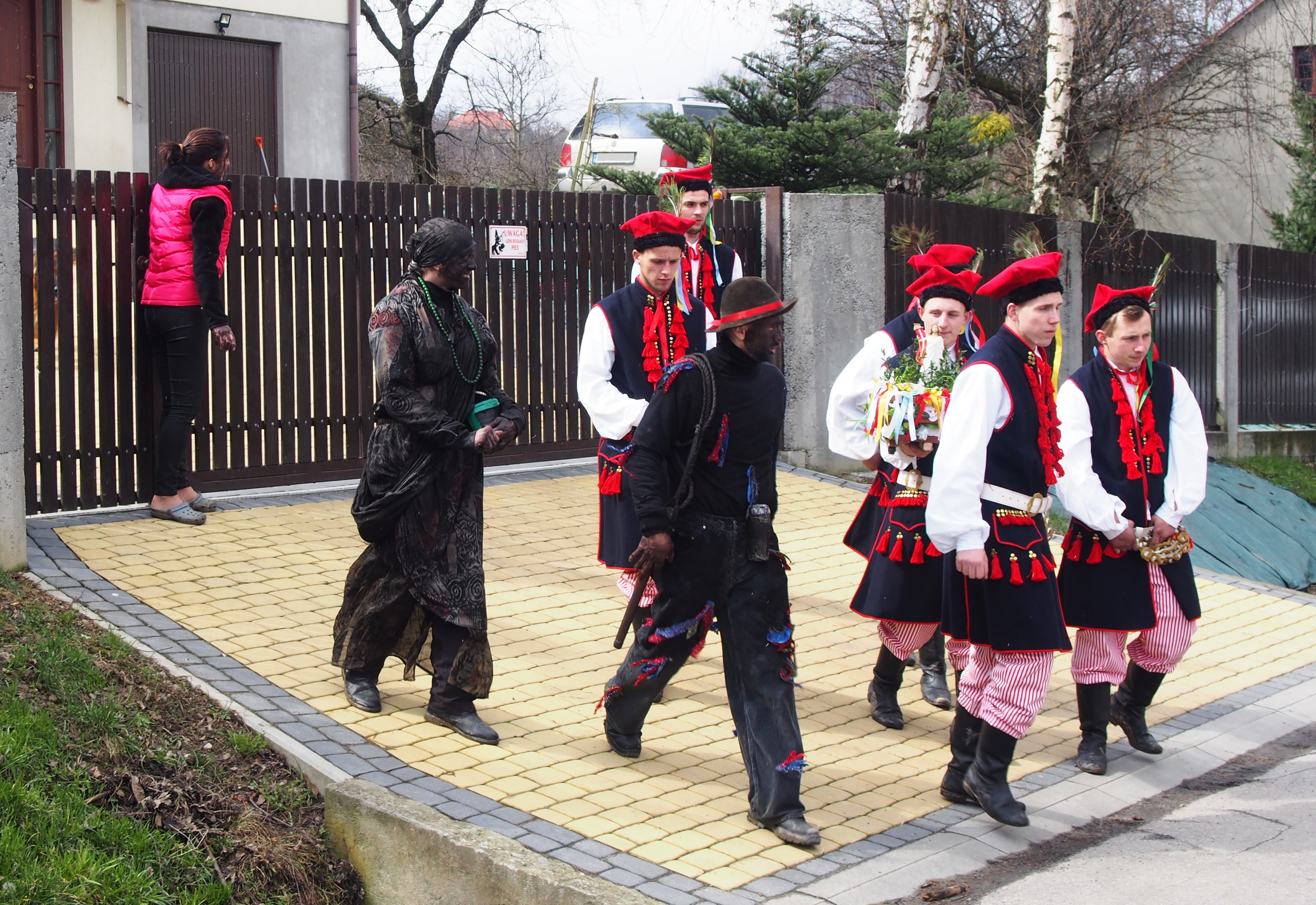 Siuda Baba, Polish folk tradition on Easter Monday, 6th April 2015, Lednica Górna, Poland. The ritual participants dressed up as Siuda Baba, Black Gypsy and Krakowiaks leave after the performance is over.